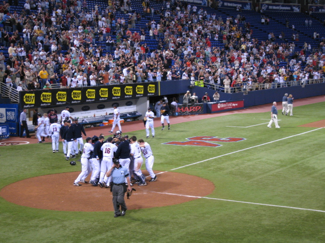 Home run for Justin Morneau. Baltimore Orioles at Minnesota Twins, Hubert H. Humphrey Metrodome, Minneapolis